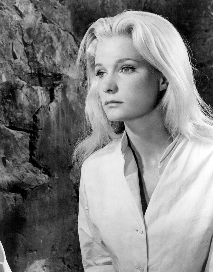 Photo of actress Yvette Mimieux in 1965.